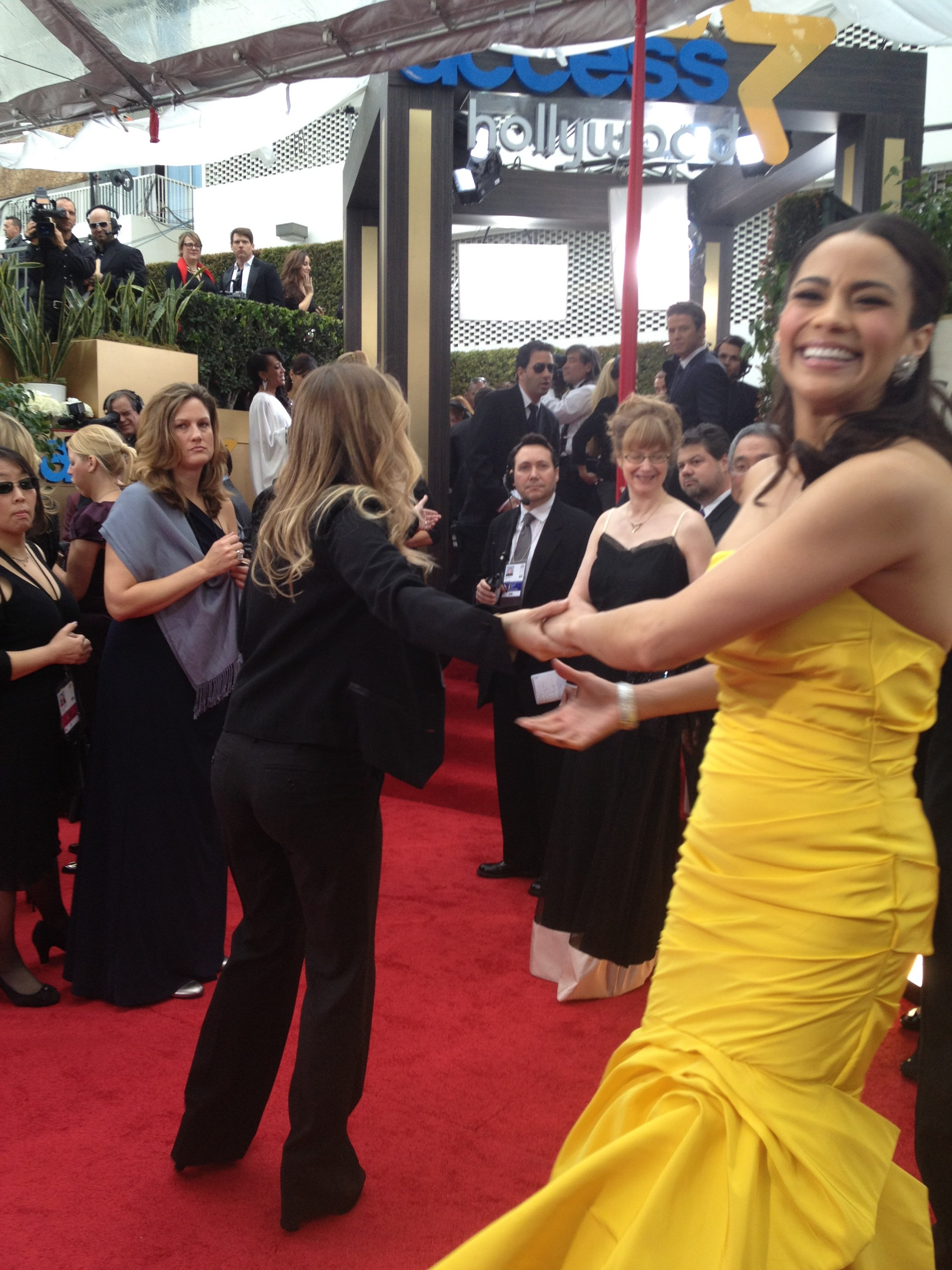 69th Annual Golden Globes Awards.